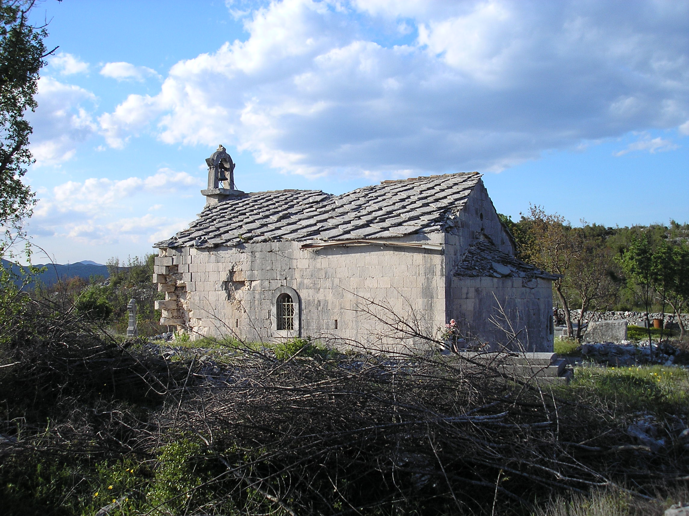 Damaged Christian Orthodox Church of St Peter and Paul in the cemetery of the village Zaplanik